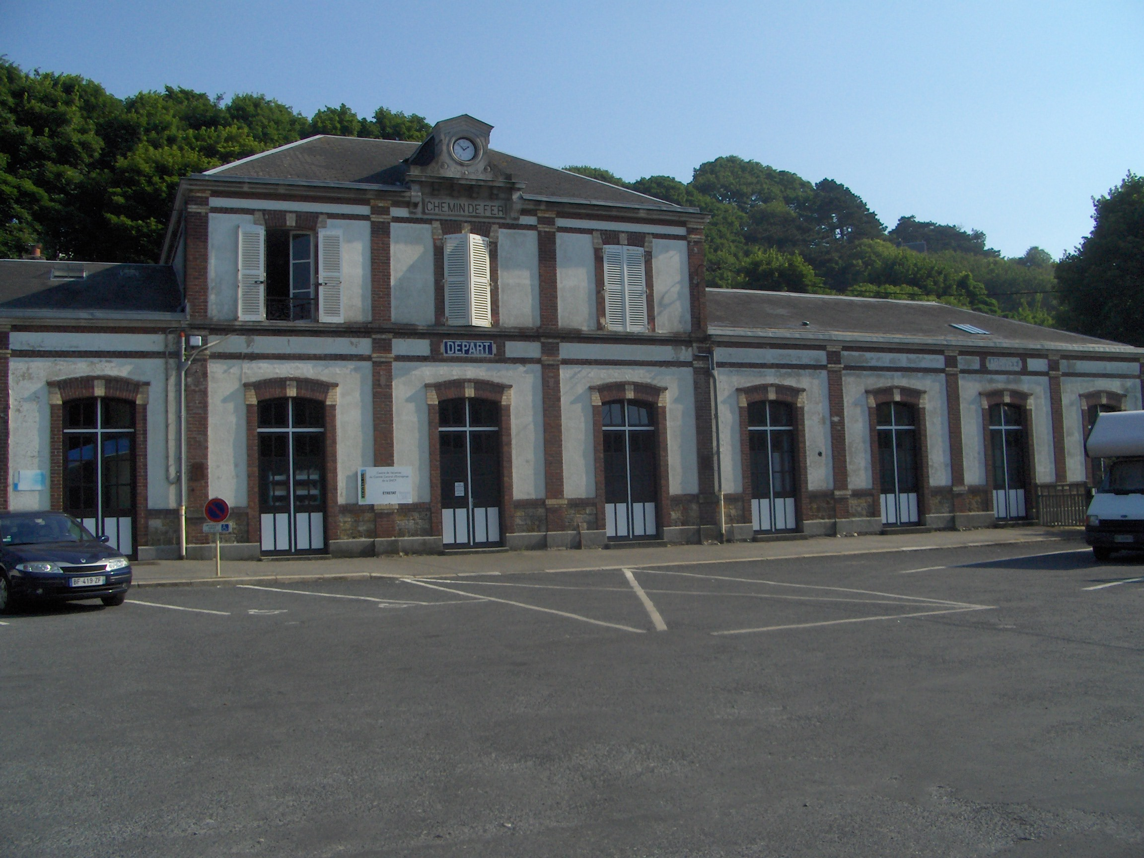 View of the Gare d'Etretat (Etretat railway station), Seine-Maritime, France, in 2012.